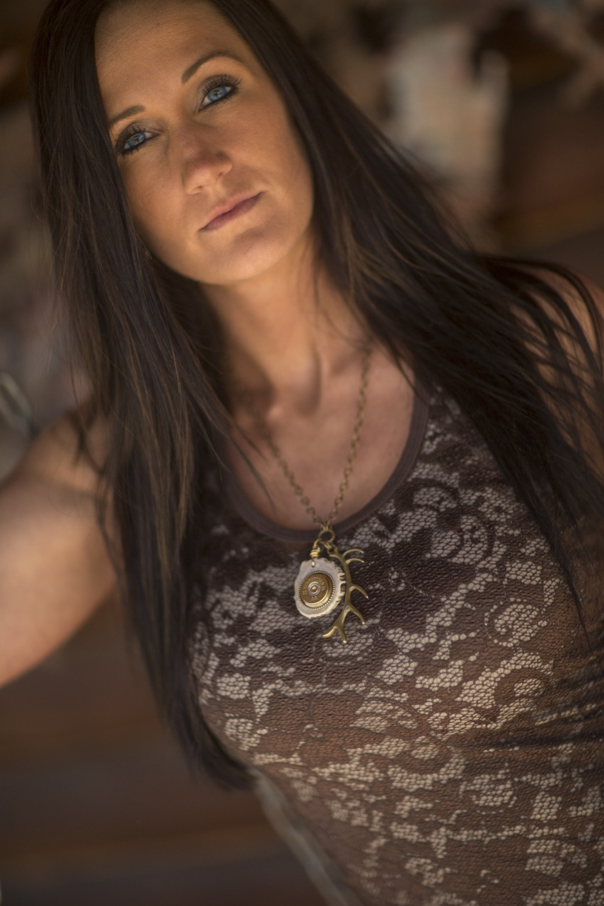 American hunter Melissa Bachman models a necklace from her ammunition based SureShot Jewelry collection